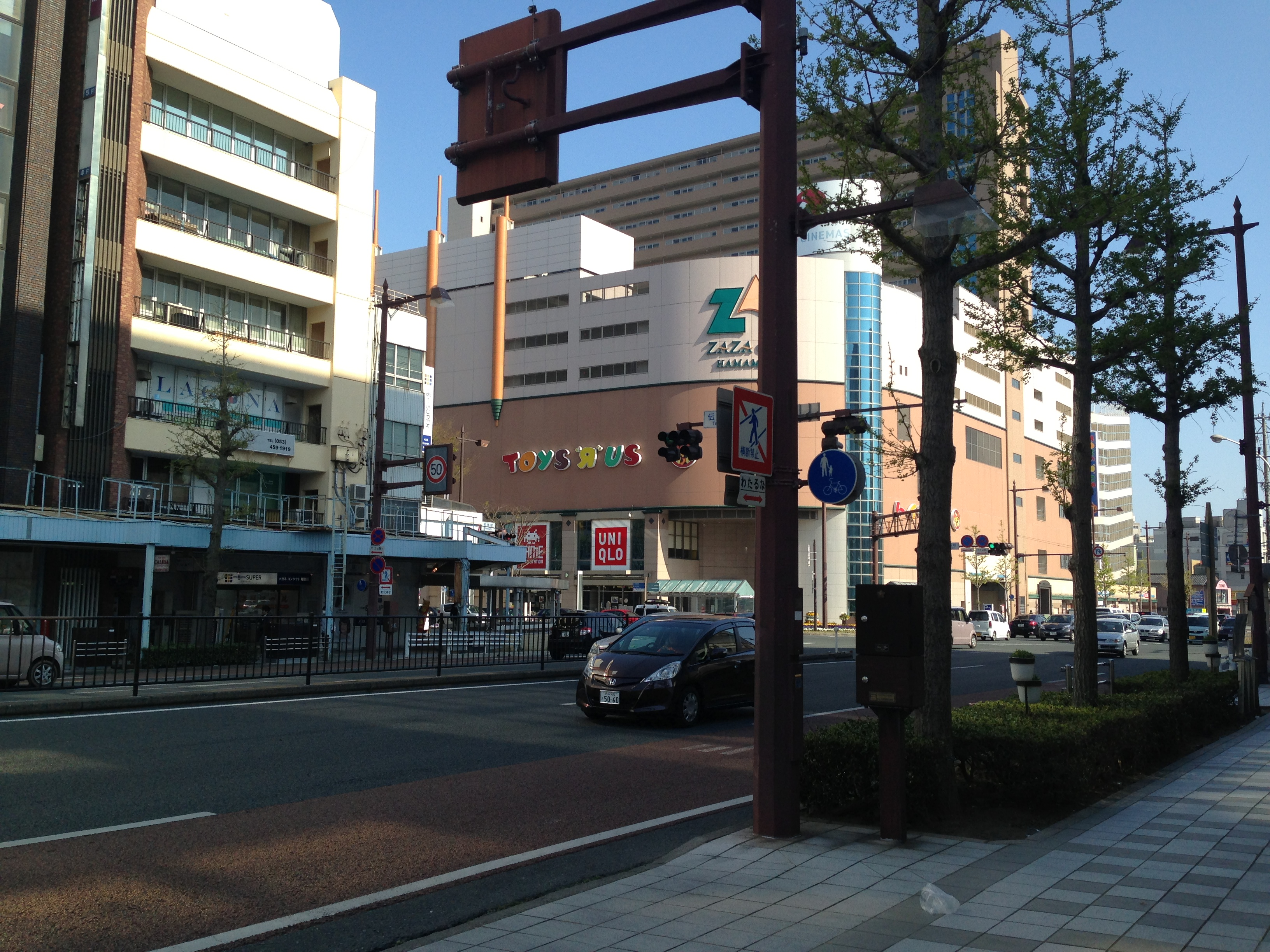 near zaza city